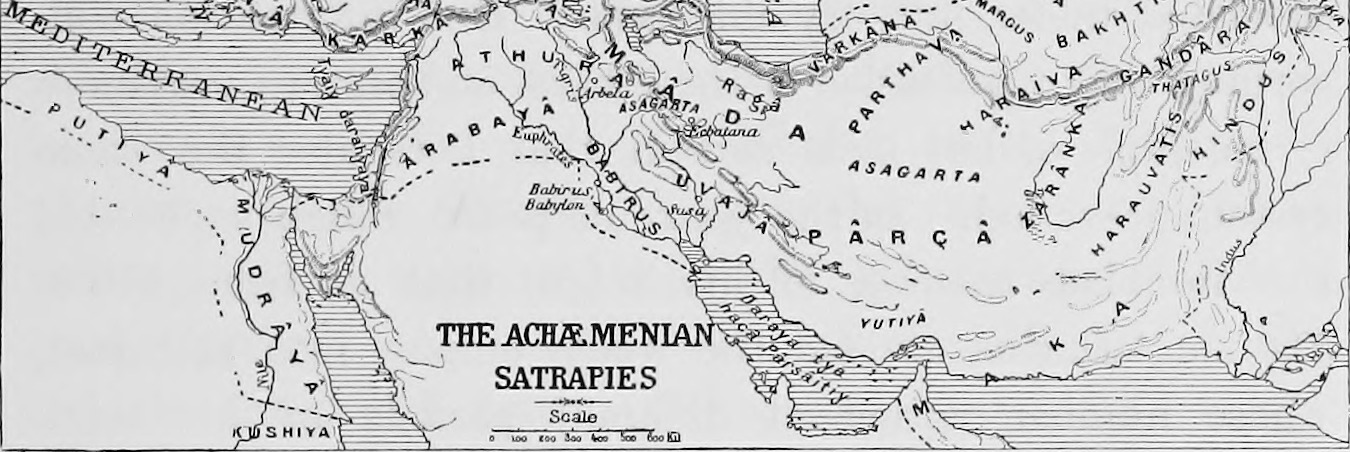 Title: History of Egypt, Chaldea, Syria, Babylonia and Assyria Year: 1903 (1900s) Authors: Maspero, G. (Gaston), 1846-1916 Sayce, A. H. (Archibald Henry), 1845-1933 Subjects: Civilization, Ancient History, Ancient Publisher: London : Grolier Society Text Appearing Before Image: ' Text Appearing After Image: the couriers, caravans, and armies which passed throughtheir territory. Native magistrates and kings still bore Herodotus cites among the commanders of the Persian fleet threeCarian dynasts, Histiteus, Pigres, and Damasithymus, besides the famousArtemisi-a of Hahcaniassus. 2 In Herodotus where a dynast named Kyberniskos, son of Sika, ismentioned among the commanders of the fleet. The received text ofHerodotus needs correction, and we should read Kybernis, son of Kossika,some of whose coins are still in existence. 3 The Cilician contingent in the fleet of Xerxes at Salainis was com-manded I)y Hyennesis himself, and Cilicia never had a satrap until the timeof Cyrus the younger. 182 THE IRANIAN CONQUEST sway in Phoenicia^ and Cyprus, and the shekhs of thedesert preserved their authority oyer the marauding andsemi-nomadic tribes of Idumsea, Nabataea, Moab, andAmmon, and the wandering Bedawin on the Euphratesand the Khabur. Egypt, under Darius, remained whatshe had been under the Saitic an